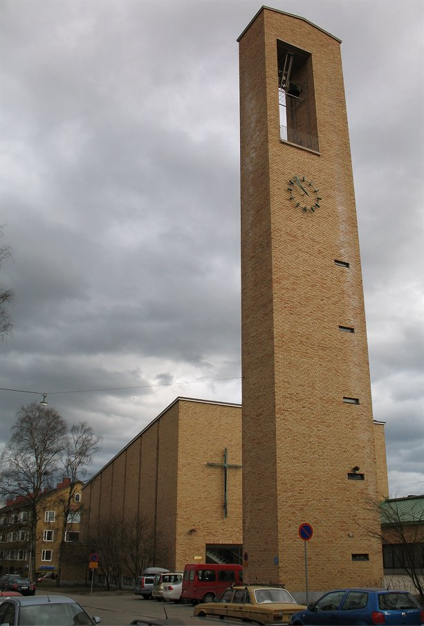 Meilahti Church, photo 1, situated in the Meilahti district of Helsinki, Finland.